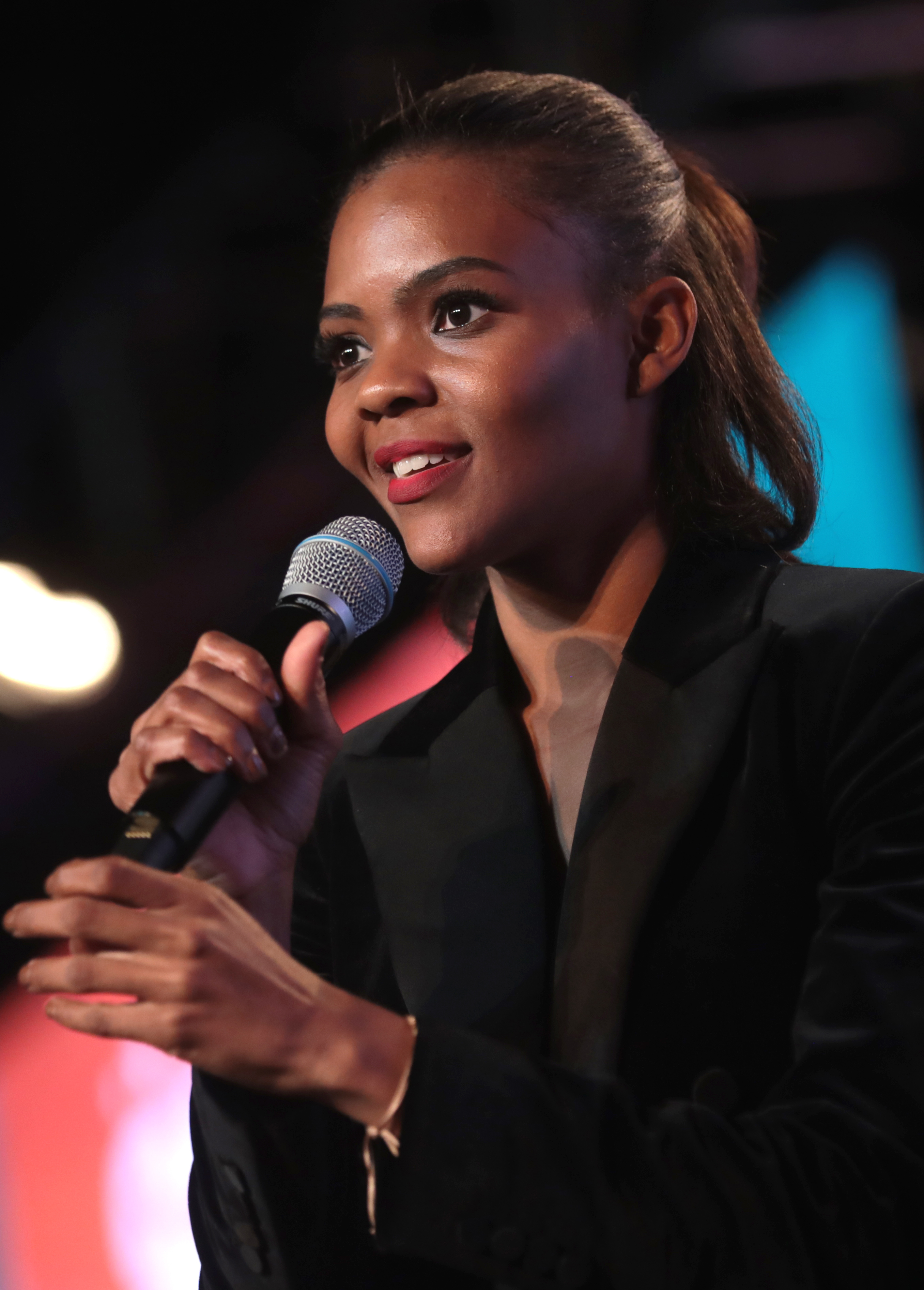 Candace Owens speaking at an event in West Palm Beach, Florida.